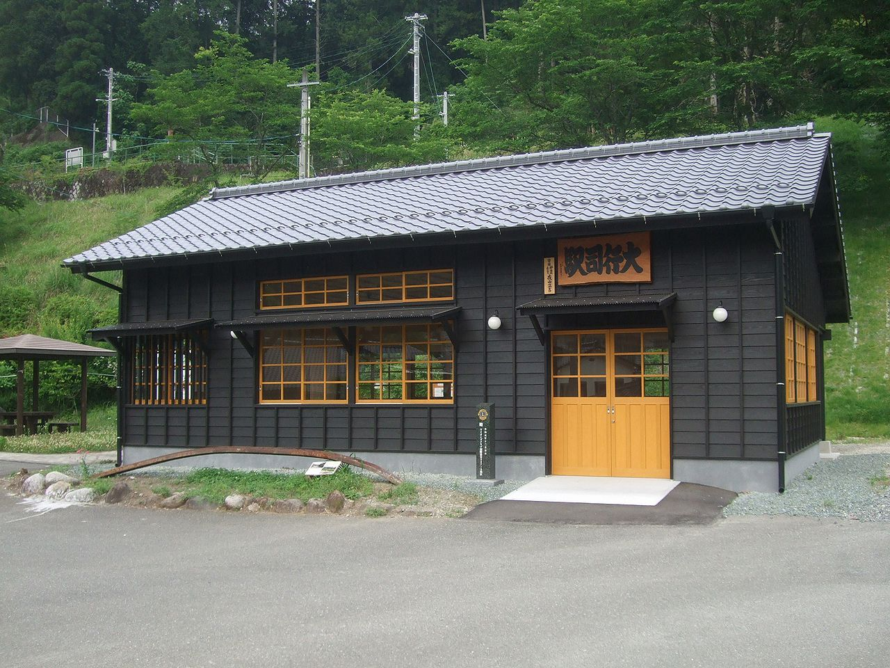 Daigyōji Station, Hitahikosan Line, Toho Village, Fukuoka, Japan. This was rebuilt on 2019.